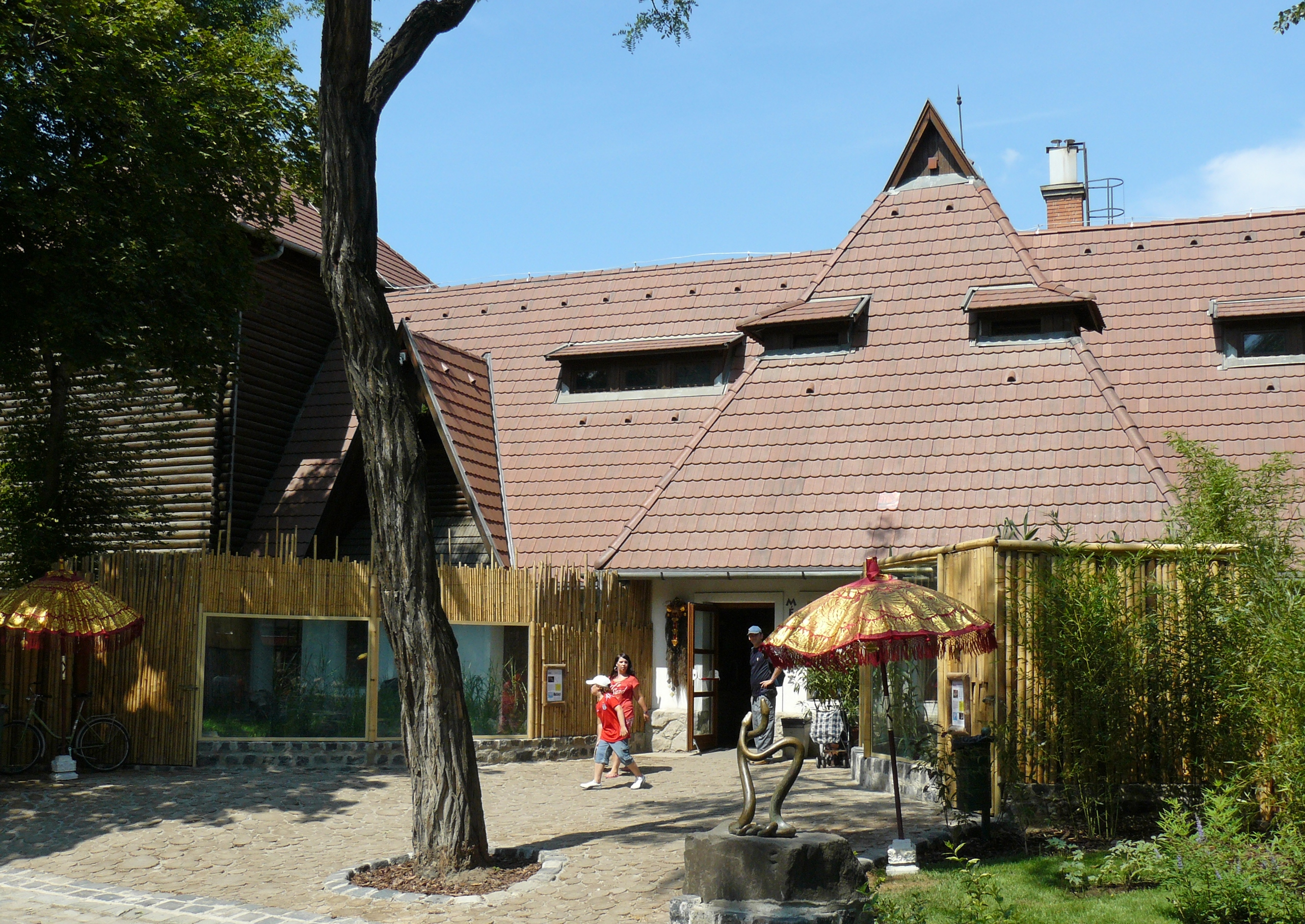 "Venomous House" (snakes, etc.) at the Budapest Zoo